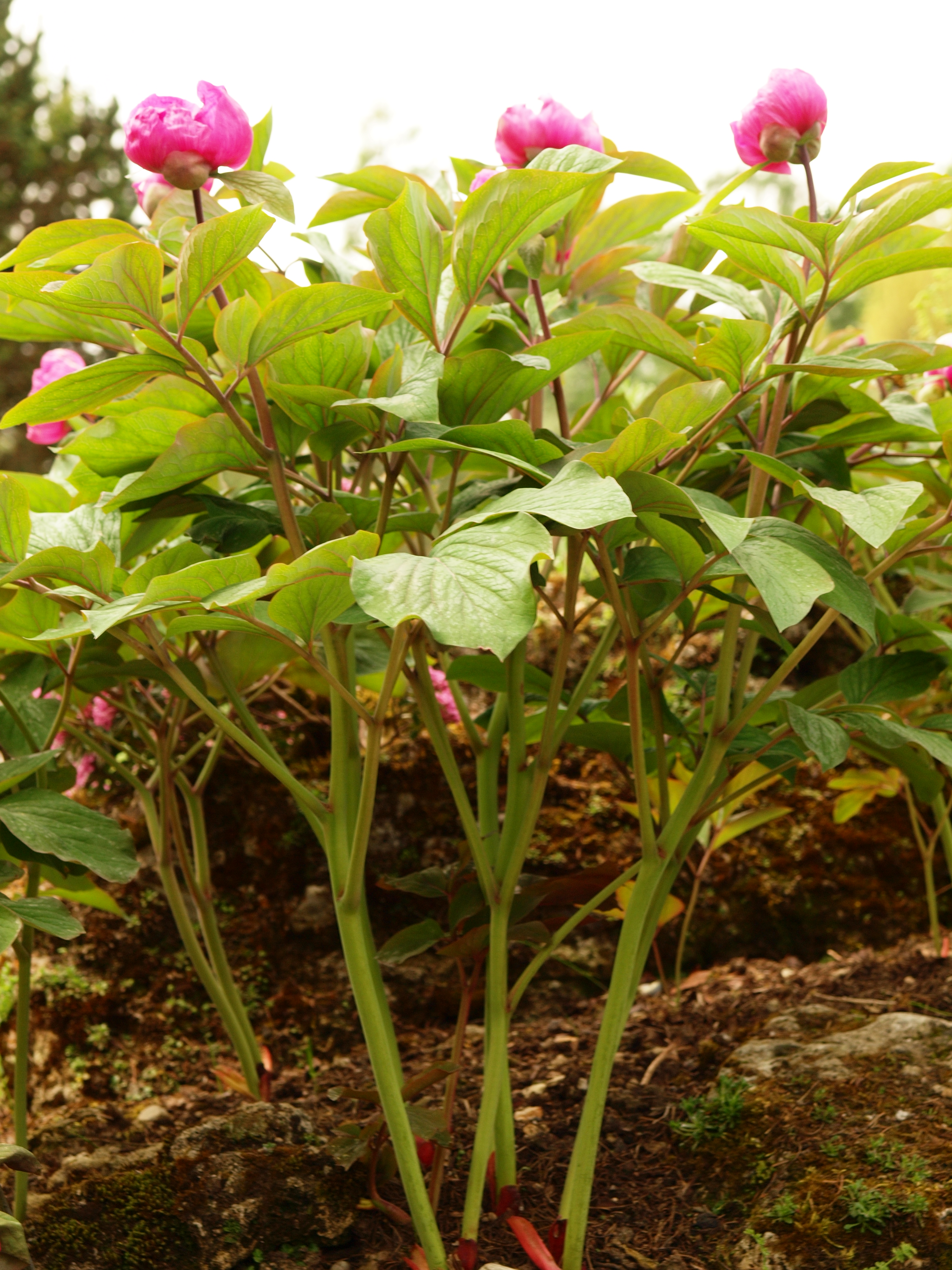 Paeonia daurica subsp. corifolia